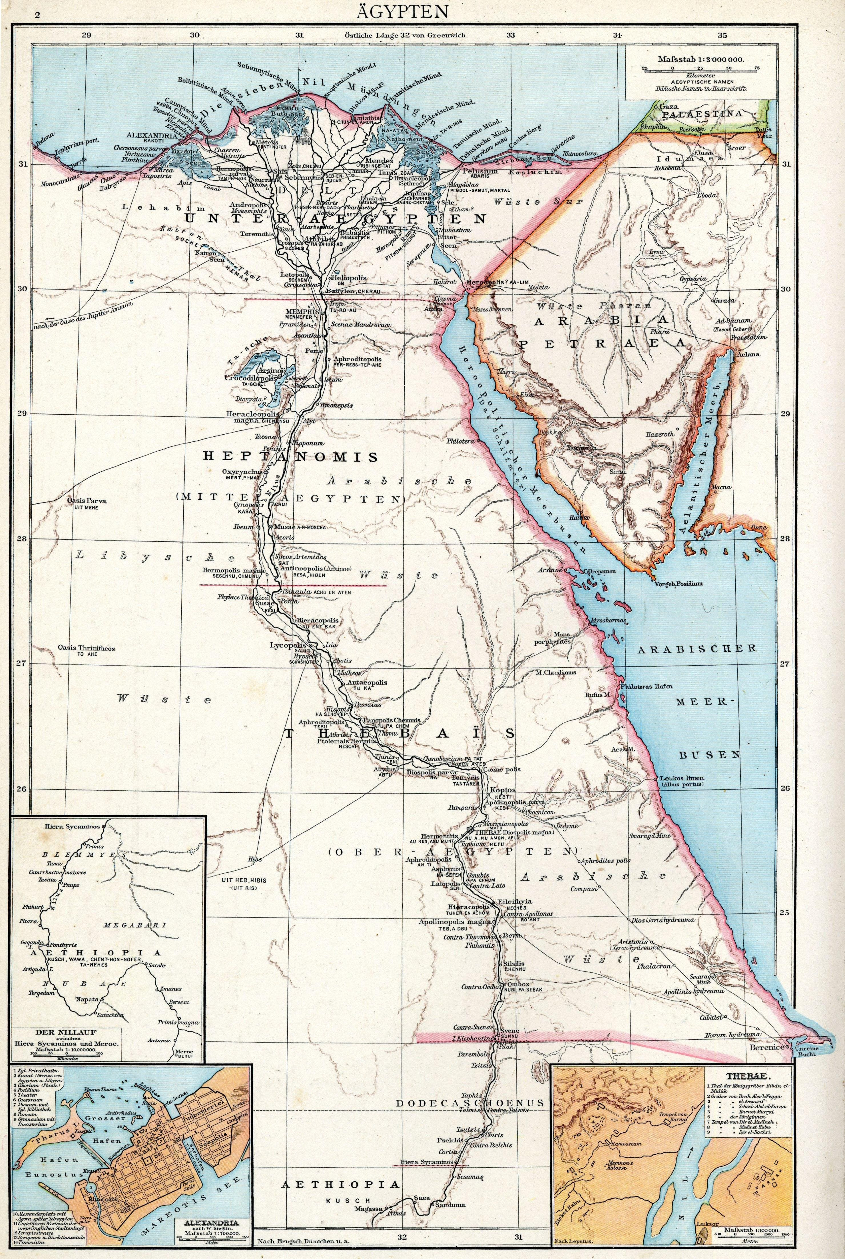 Egypt. (Map of the Historical Atlas of Gustav Droysen, 1886)